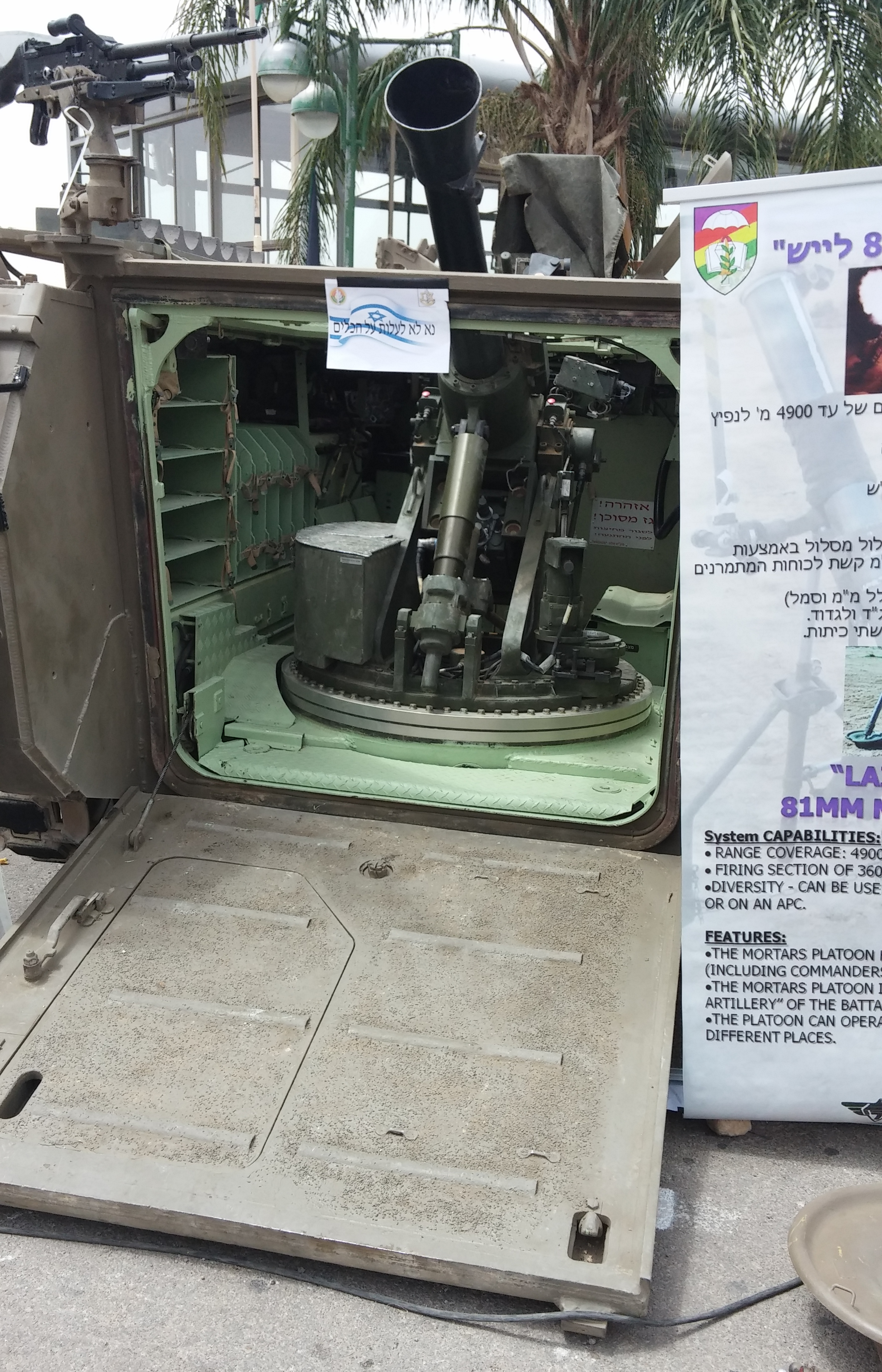 "Keshet" 120 mm Mortar carrier, exhibited beside a Laish mortar as an example for what can carry it